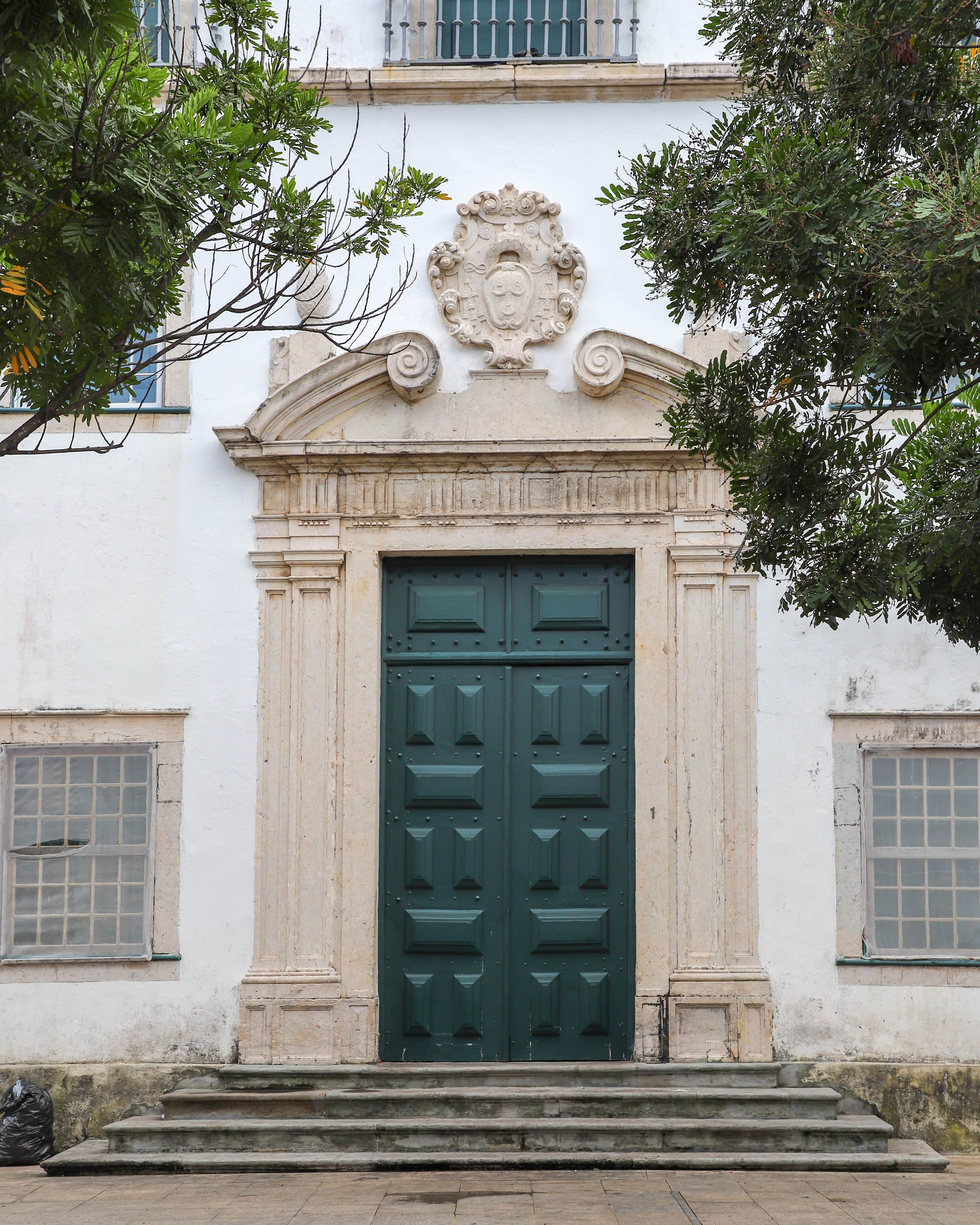 Palácio Arquepiscopal de Salvador, Salvador, Bahia, Brazil.